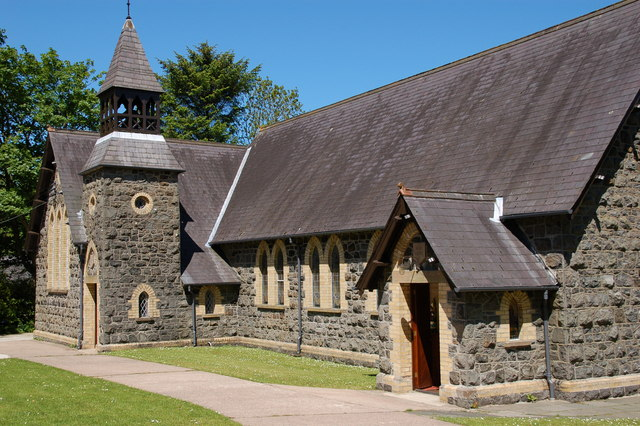 Magheramorne Presbyterian church. Magheramorne Presbyterian church is about a mile or so from Magheramorne village near the top of the Ballylig Road. Built in 1876 it is close to Magheramorne House the home of James McGarel-Hogg, 1st Baron Magheramorne.